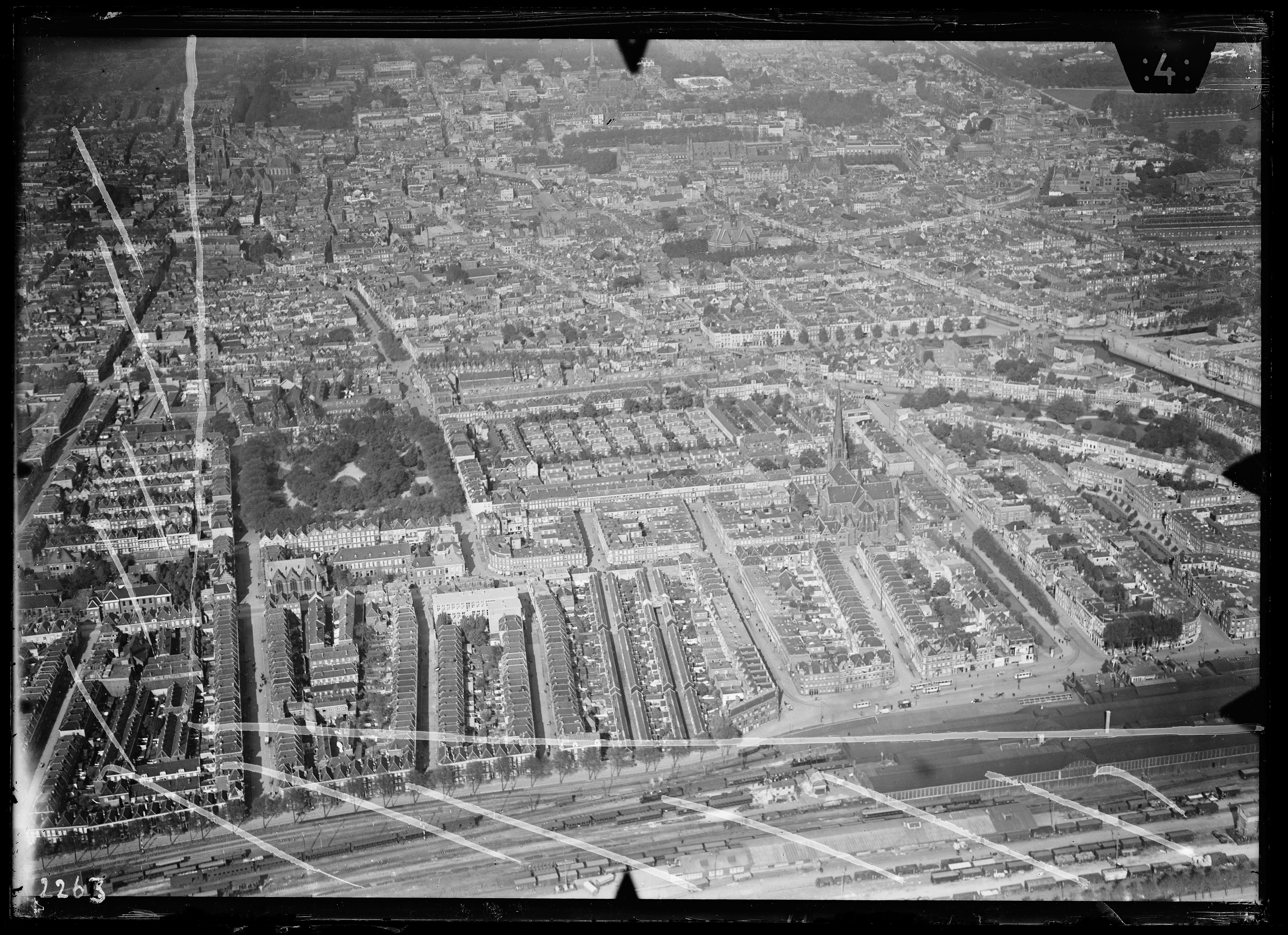 Aerial photograph of The Hague, The Netherlands